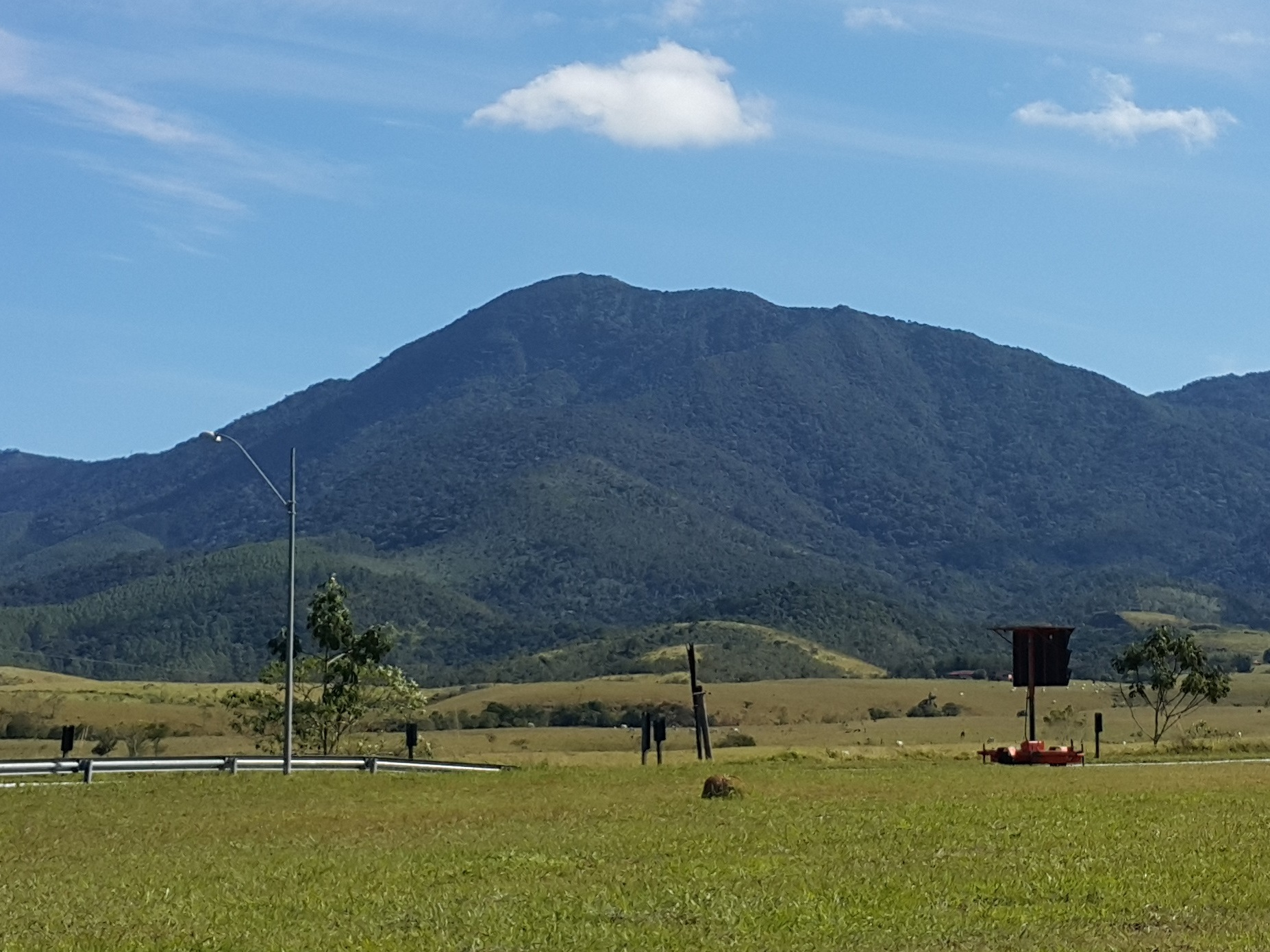 The Pico Agudo seen from Floriano Rodrigues Pinheiro Highway, near the place where hang gliders land, jumping from its summit. Pindamonhangaba, São Paulo, Brazil.